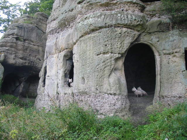 Anchor Church near Ingleby. This 'church' is actually a cave dwelling. Partly natural and partly man made the caves were originally formed by the action of the river Trent on the rocks. It has been occupied on and off since the 14th century. There are historic photos of large picnic parties being held here and boats on the river. Sadly today it is suffering from graffiti, litter and the results of fires.